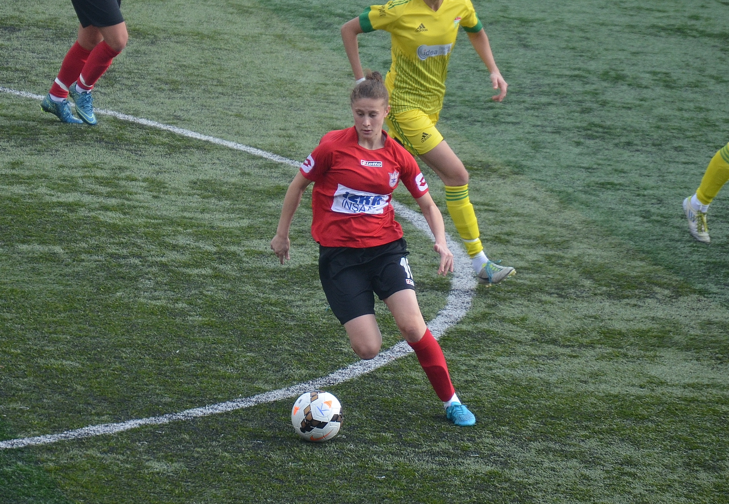 Ebru Topçu playing for Konak belediyespor in the 2015-16 season away match against Kireçburnu Spor